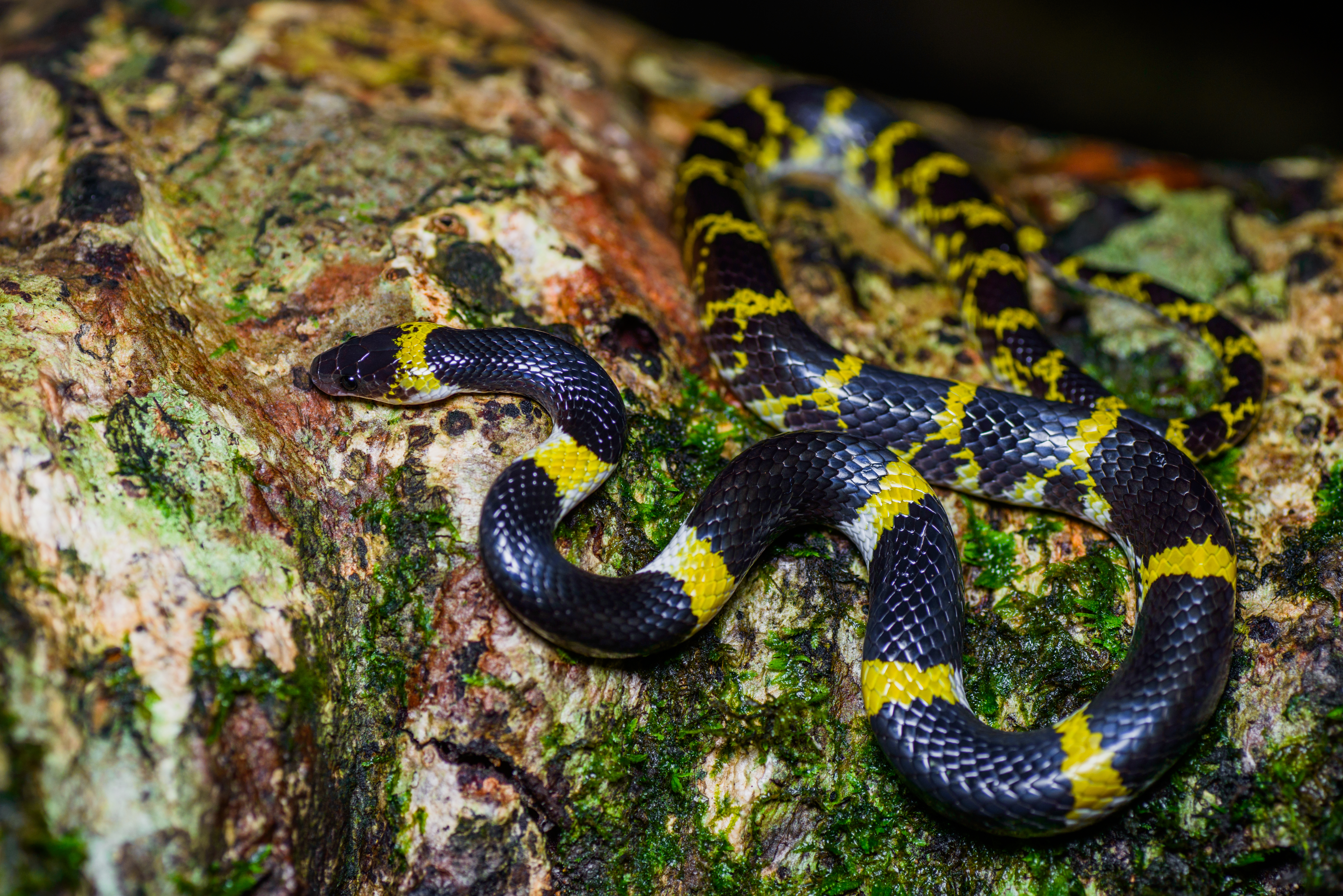 Khao Chamao Waterfall, Khao Chamao - Khao Wong National Park